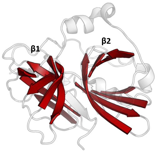 Structure of TEV protease. The double β-barrels that define the superfamily are highlighted in red. The final 15 amino acids (222-236) of the enzyme C-terminus are not visible in the structure as they are too flexible (PDB 1lvb)